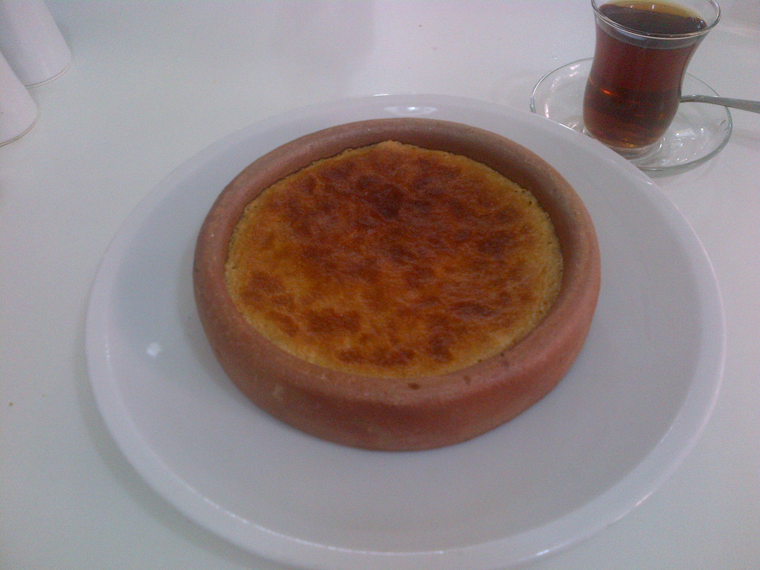 Fırın helva is "helva" (halva) baked in the oven with lemon juice and milk.